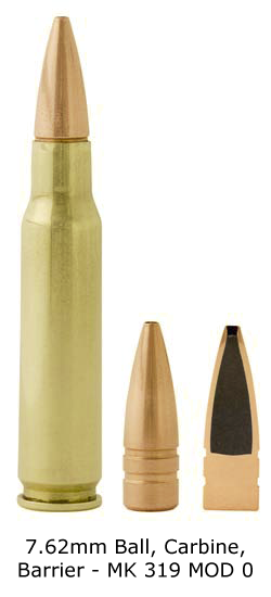 7.62mm Ball, Carbine, Barrier - MK 319 MOD 0